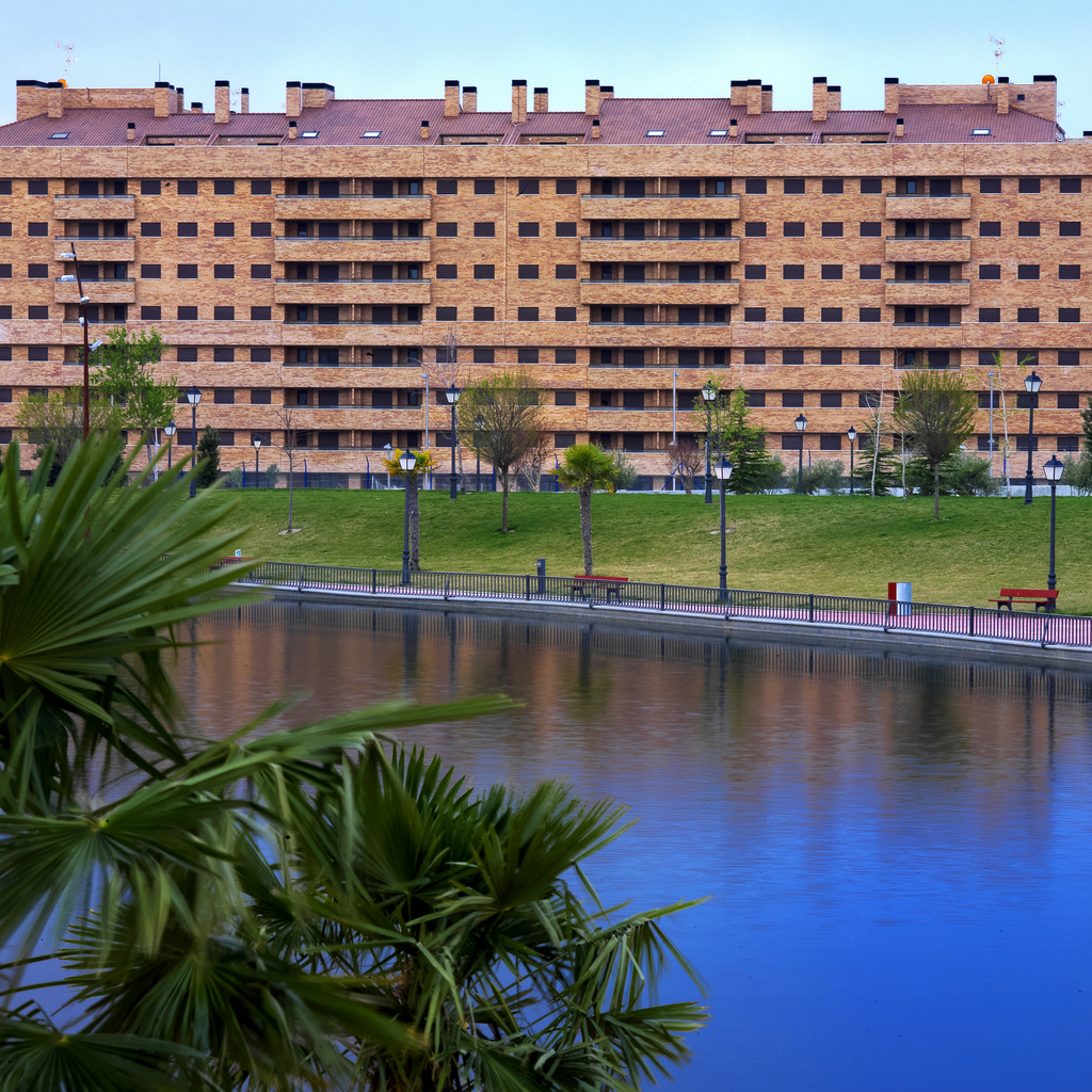 Residencial Francisco Hernando in Seseña, Toledo, Spain